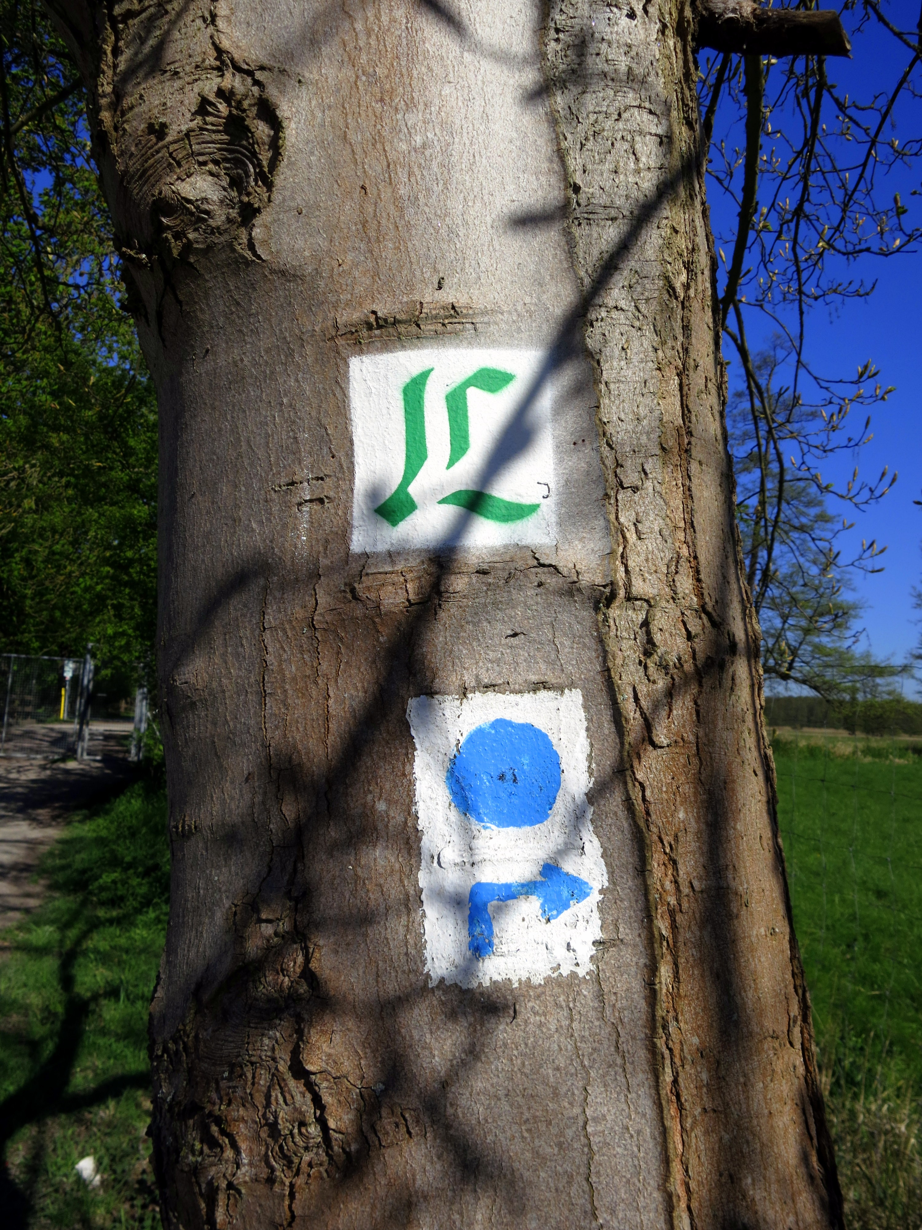 Waymark from Lutherway 1521 in the Nature reserve Mönchbruch.